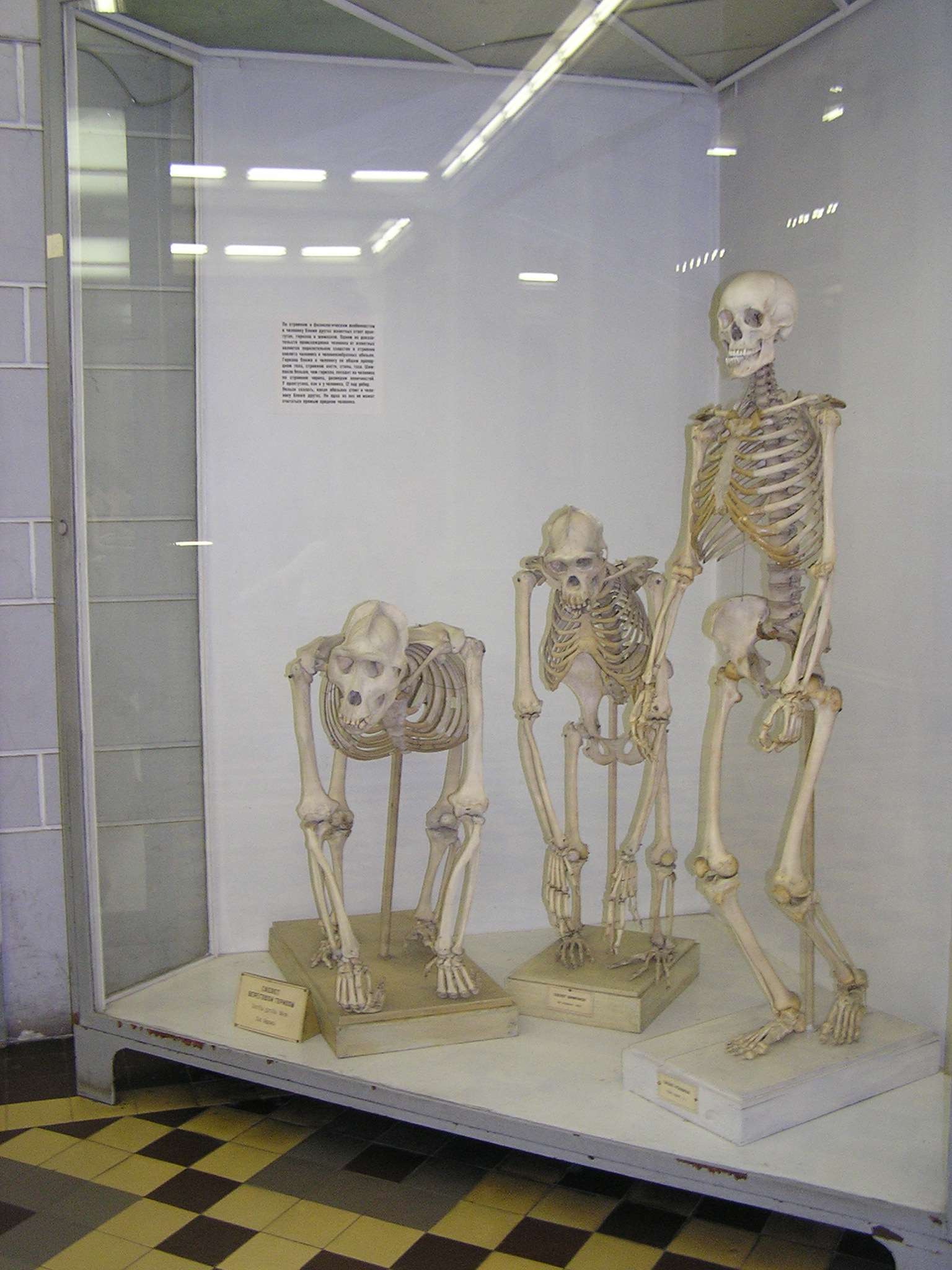 Zoological Museum in St. Petersburg. Skeletons of primates. From left: Gorilla gorilla, Pan spec., Homo sapiens